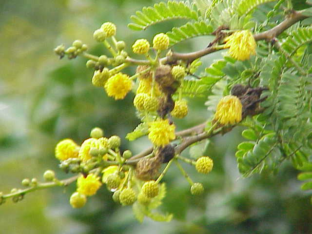 Species: Acacia karroo Family: Fabaceae Image No. 1